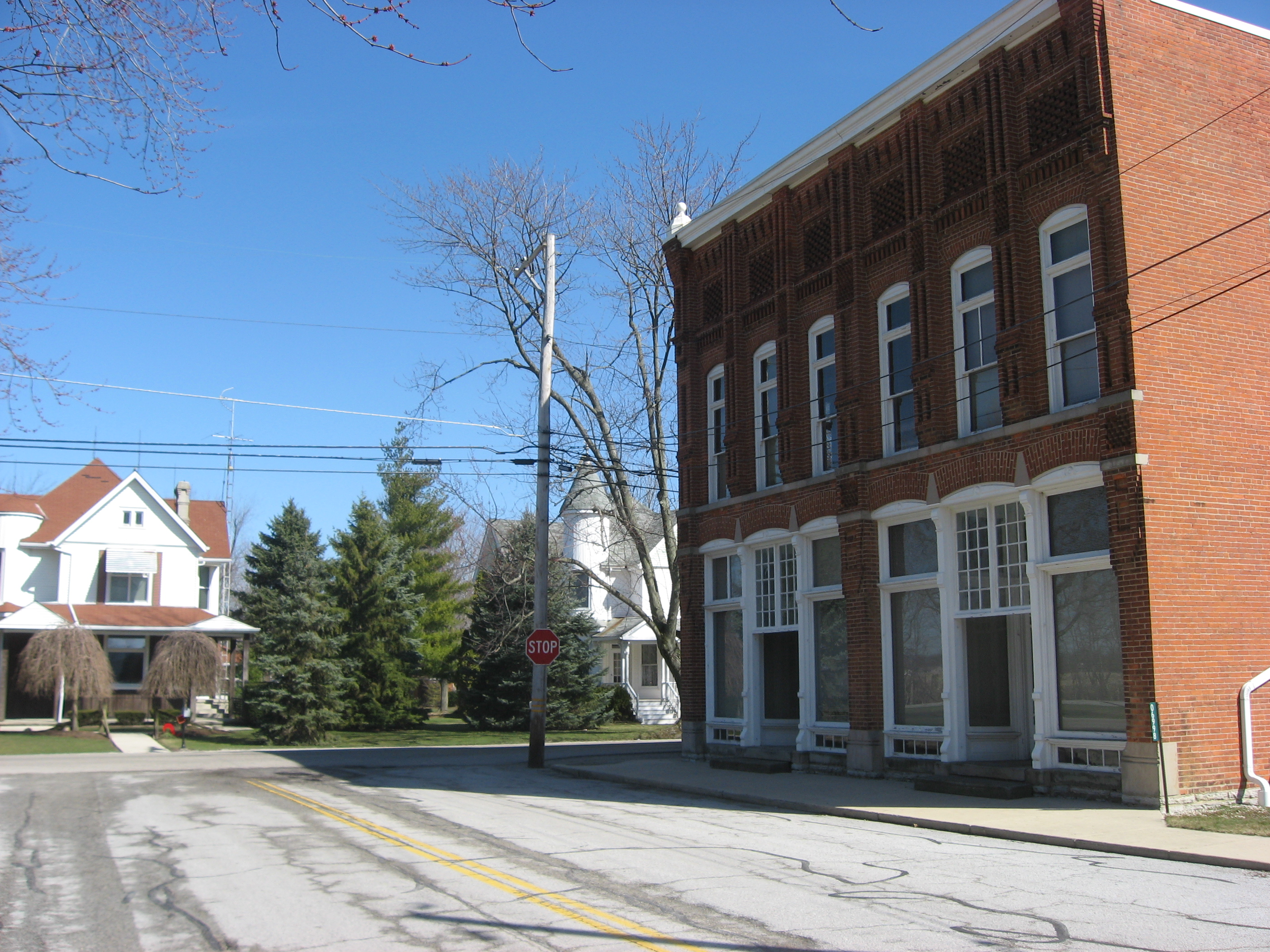 Buildings in central Lock Two, an unincorporated community in German Township, Auglaize County, Ohio, United States. The community was a canal town that grew around the second lock on the Miami and Erie Canal.